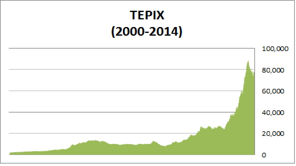 TEPIX index (2000-5/14/2014). NOTE: The Iranian rial was devalued in July 2013.